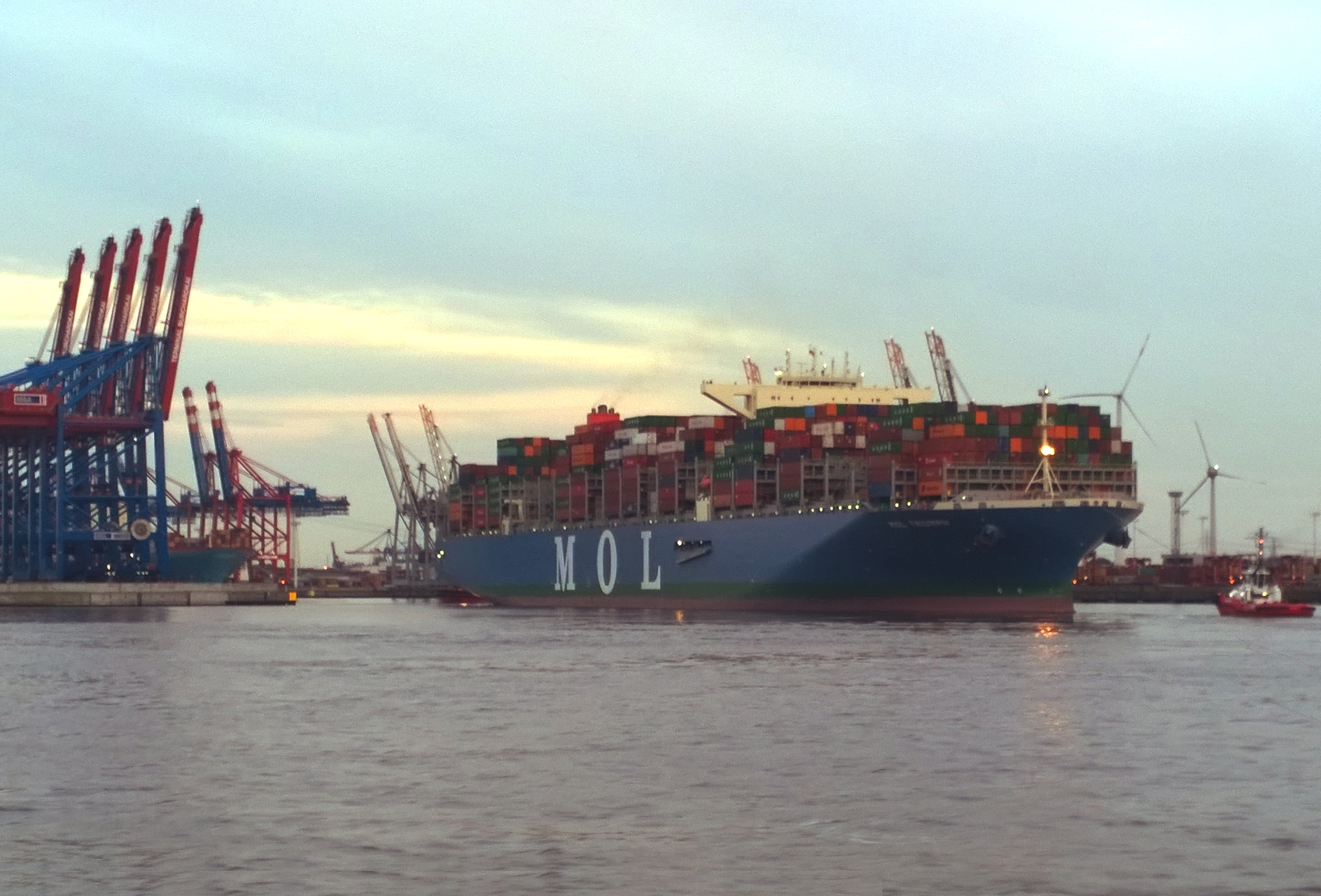 The MOL Triumph at the mooring at the container terminal Burchardkai, Hamburg